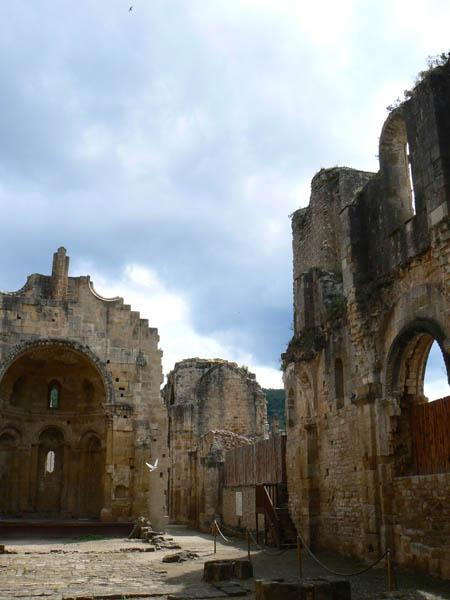 Abbaye Alet